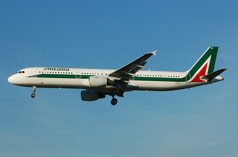 Alitalia Airbus A321 I-BIXT